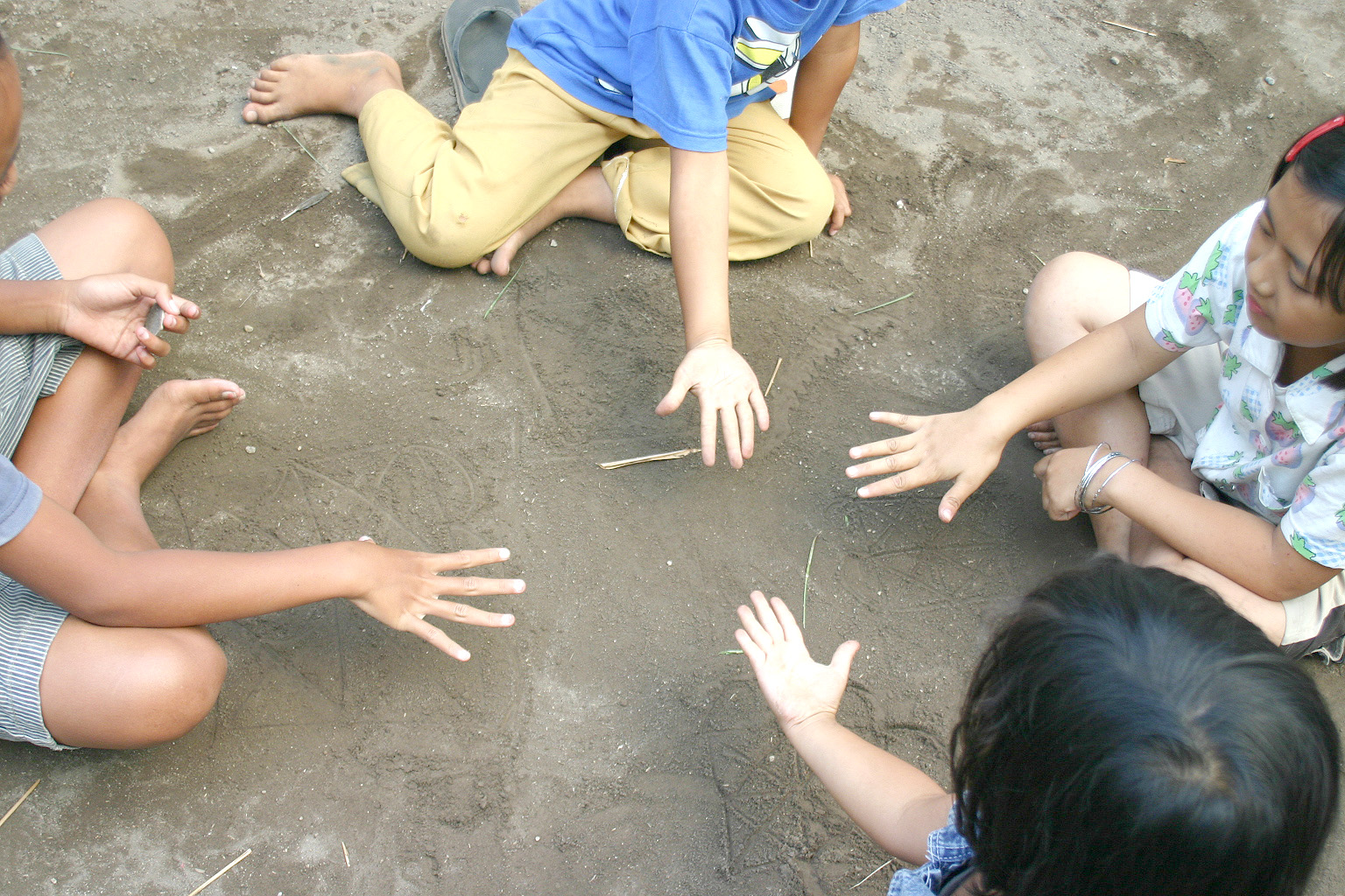 Hompimpa, a game for kids, played in a village in Java, Indonesia